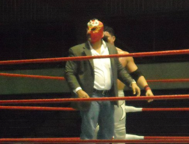 Professional wrestler Ray González under the masked persona known as "Rey Fénix".